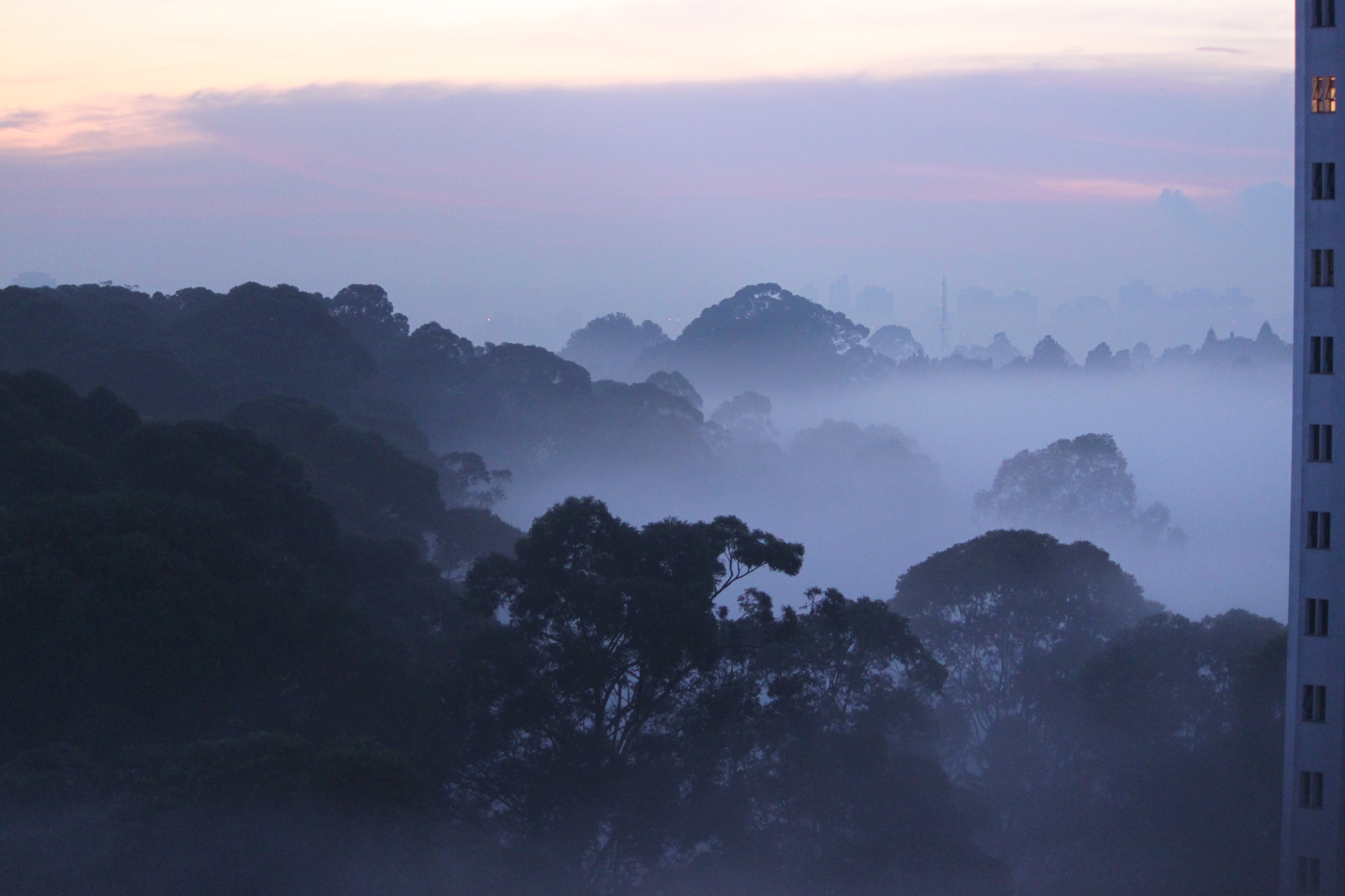 Sao Paulo, morning hour (05h00)